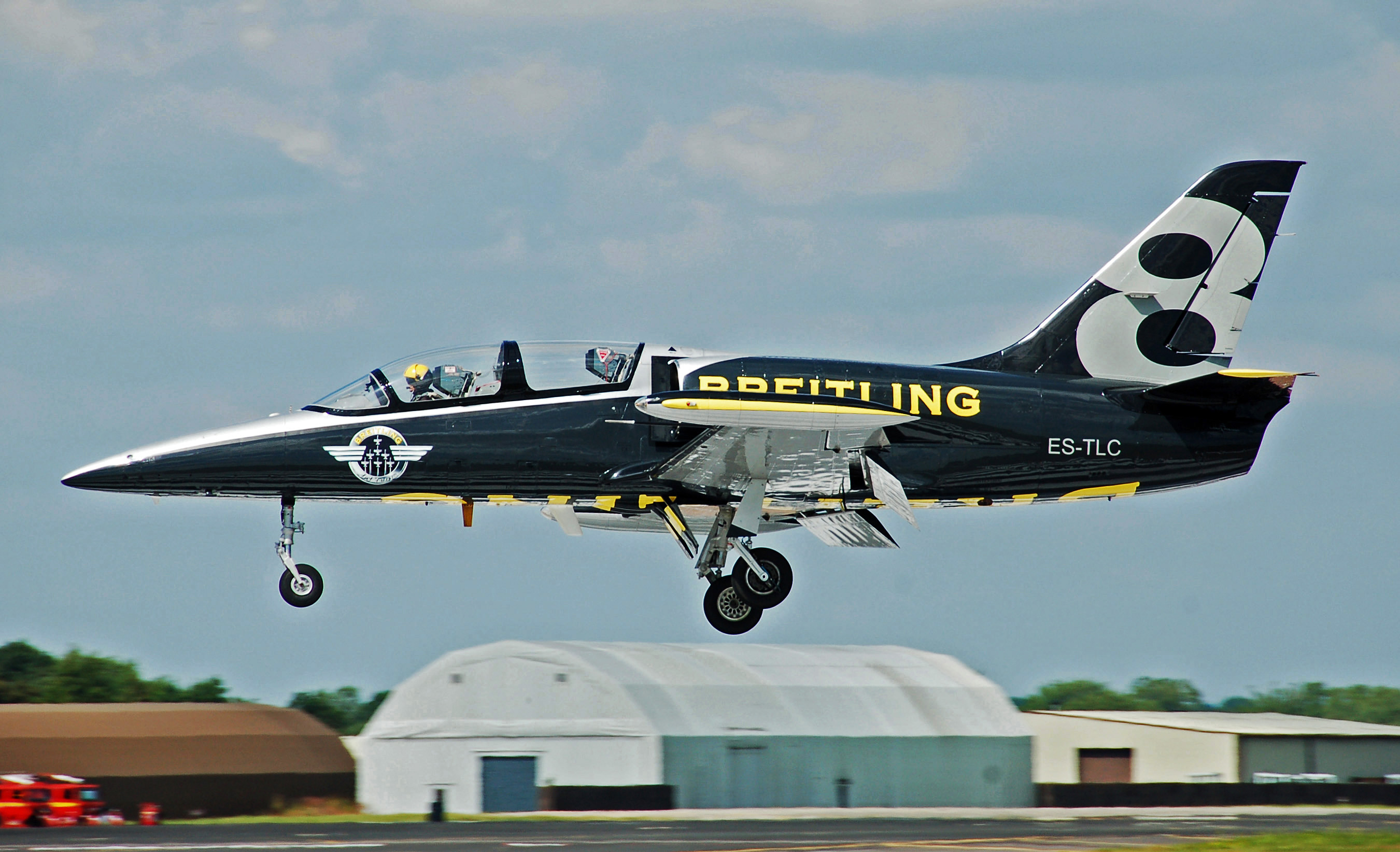 Aero L-39 Albatros (ES-TLC) of the Breitling Jet Team lands at Fairford Airfield, England, on Thursday July 10th 2014 to perform in the Royal International Air Tattoo of Saturday and Sunday July 12th and 13th 2014. The aircraft is a 2-seater Czech Republic-made military training jet, now out of production. (Note that Albatros has only one letter 's' in the aircraft name, I have not misspelt it!).